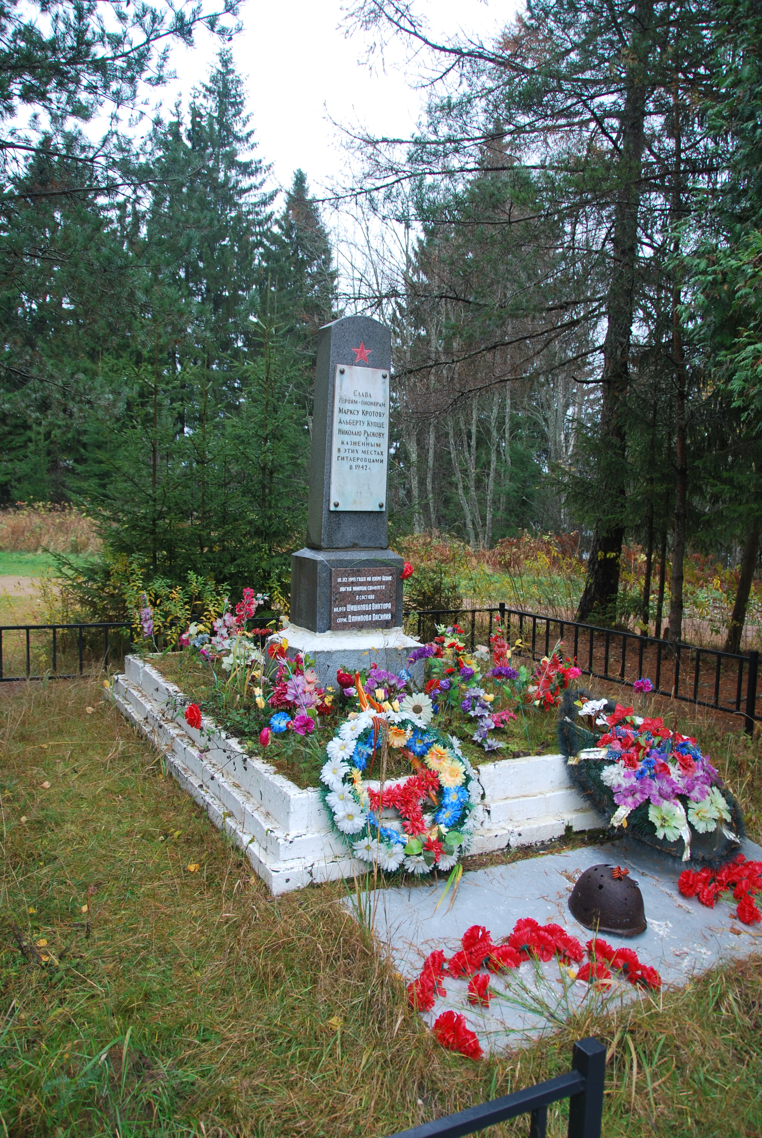 Memorial to pioneers and aviators near Kostuya hamlet